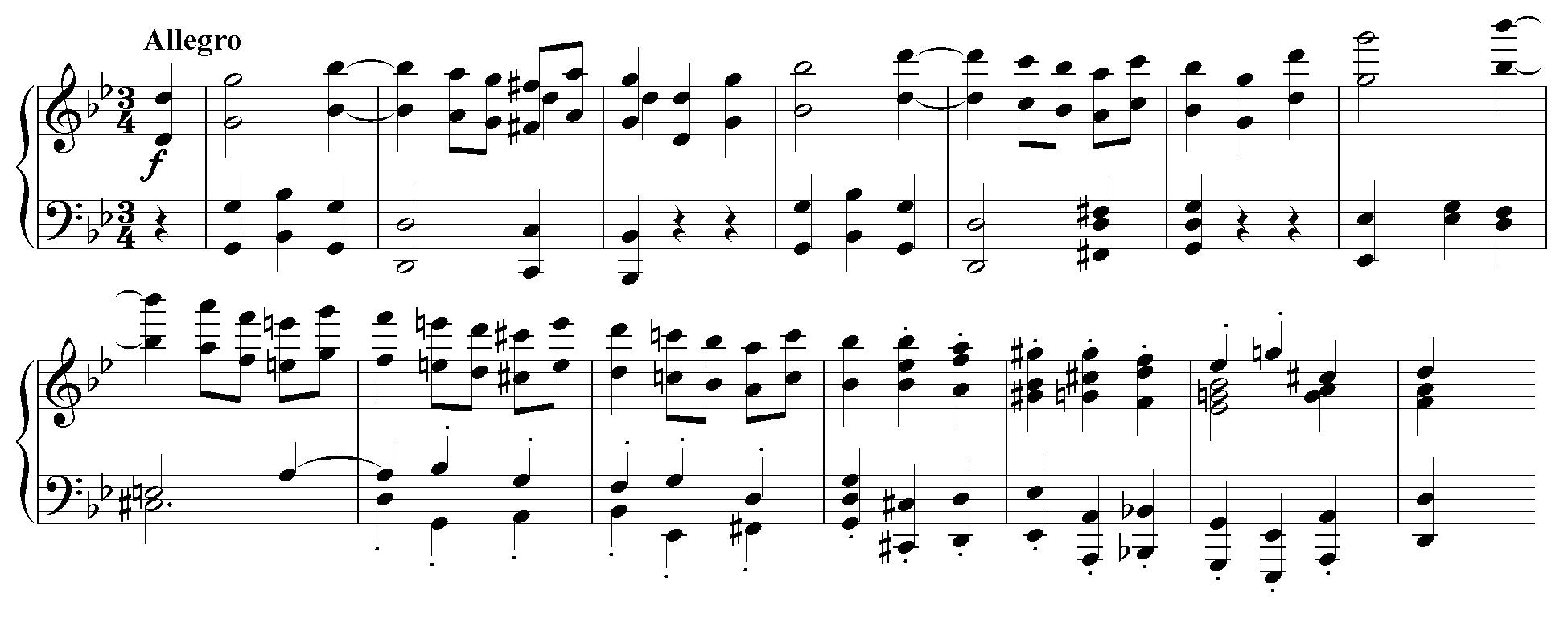 W.A.Mozart, symphony #40, part III, first theme (piano arrangement)